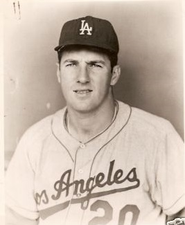 An early 1960s Houston Colt 45's press photo of Dick Farrell, who was drafted by the team in 1962. The website also shows the information about Farrell in the back of the photograph (which I can upload in request), and without a copyright notice. A check of several other pictures doesn't include copyright notices. It is therefore presumed the entire Colt 45s press kit is PD not renewed/PD no copyright 1978.